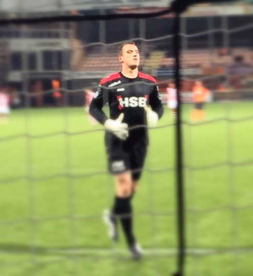 Hobie Verhulst during the FC Volendam - Jong PSV game.